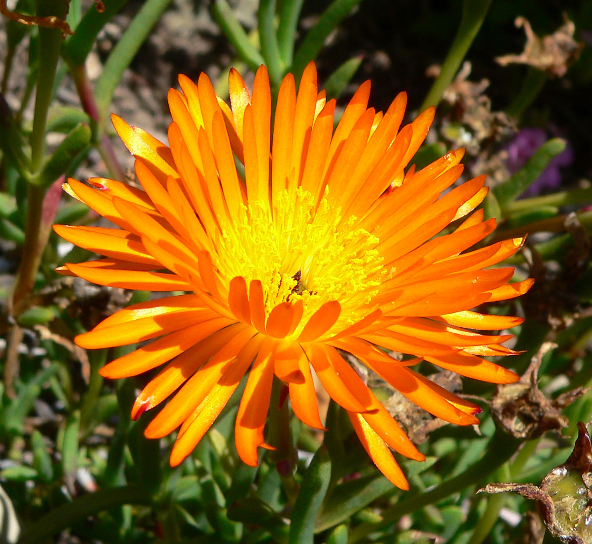 Lampranthus glaucoides at the University of California Botanical Garden, Berkeley, California